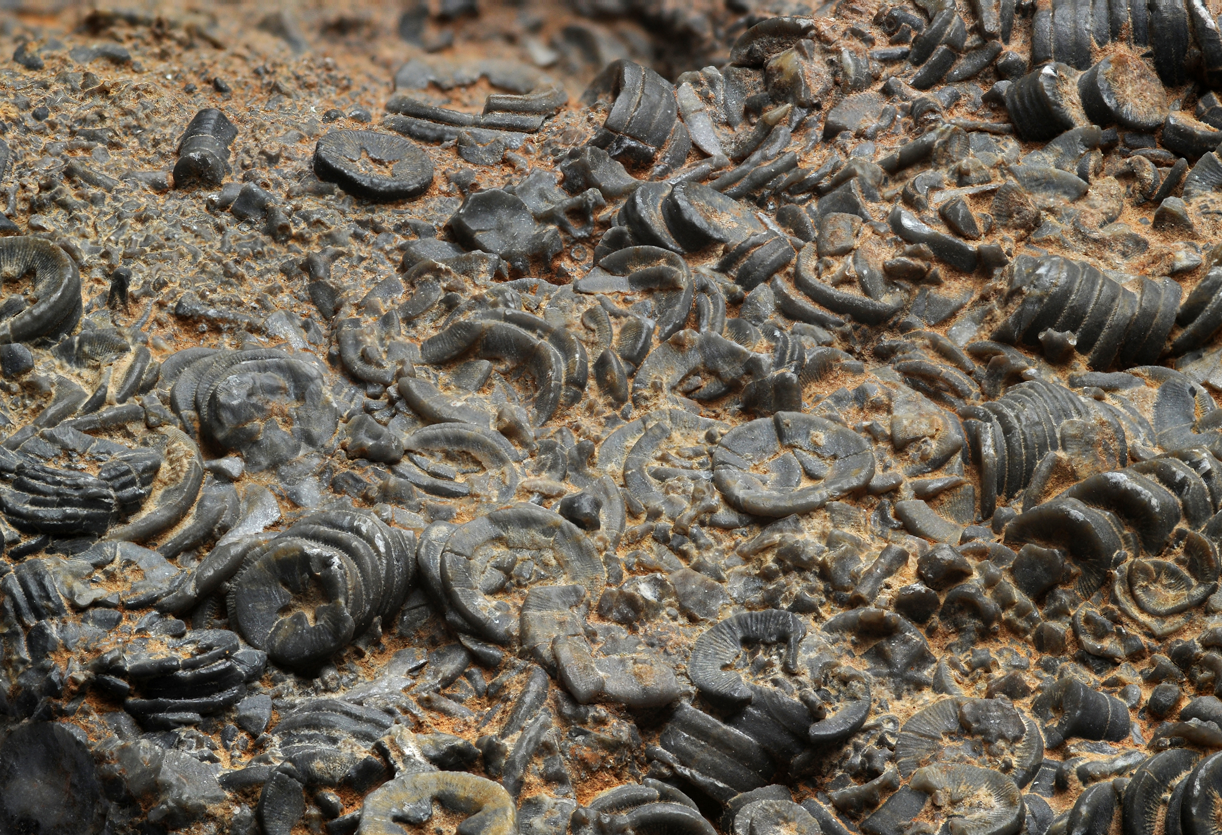 This image was uploaded as part of Wiki Science Competition 2019. This photograph was taken with a Nikon D300 This image was created with CombineZP ( It was created out of 23 single images.). Fossiles de crinoidea sp. (focus stacking). Image composée de 23 photos assemblées avec CombineZP. Quality image This image has been assessed using the Quality image guidelines and is considered a Quality image.